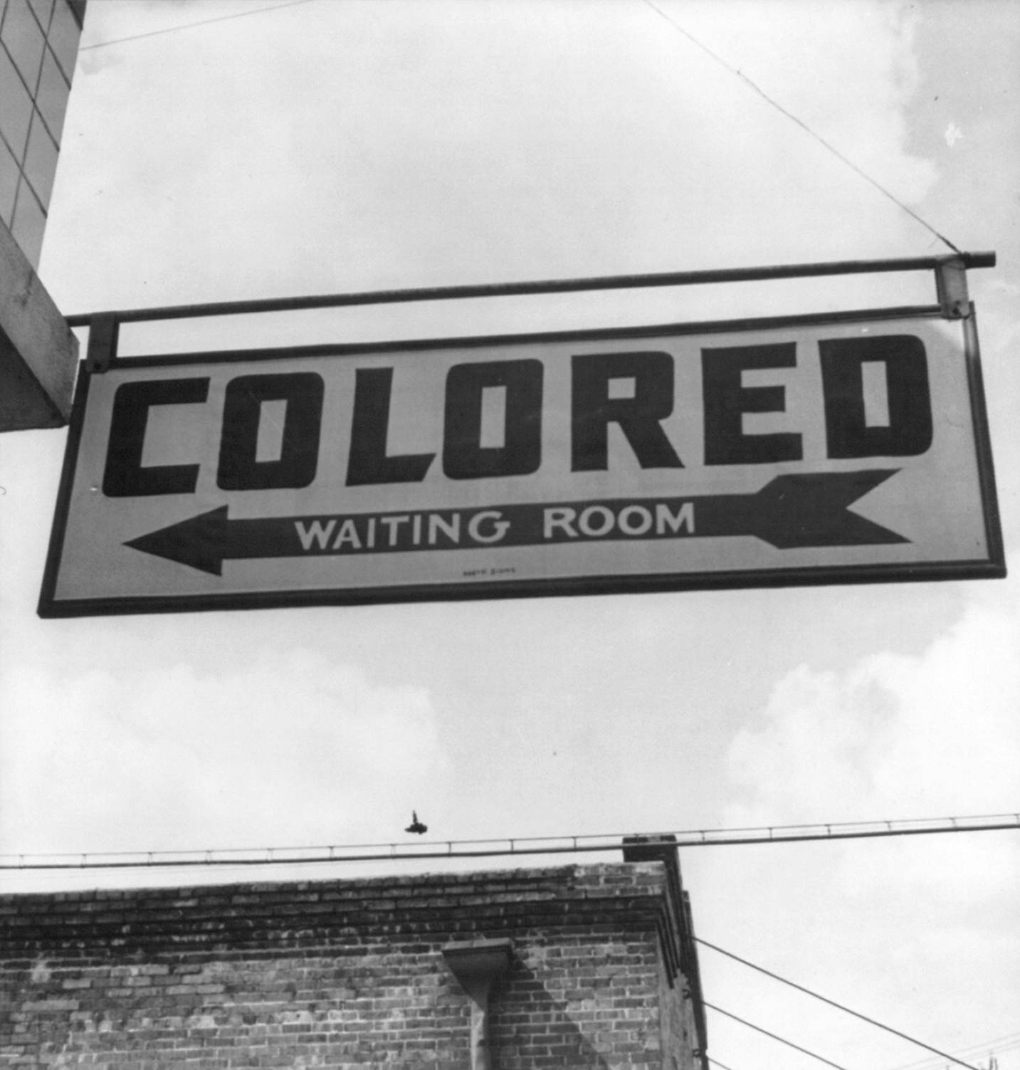 Description: "Colored Waiting Room" sign from segregationist era United States. Medium: Black-and-white photograph Location: Greyhound bus station[1], Rome GA, United States Date: September 1943 Author: Esther Bubley Source: Library of Congress Provider: "Images of American Political History" at the College of New Jersey [2] License: Public domain Misc: Borders cropped with GIMP